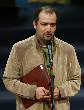 اختتامیه بیست و پنجمین جشنواره فیلم فجر